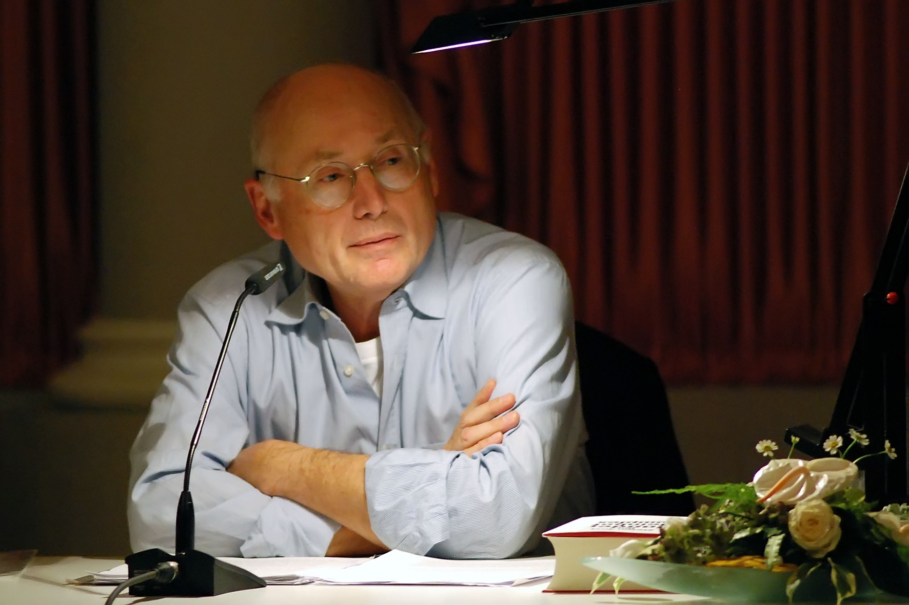 Stefan Aust